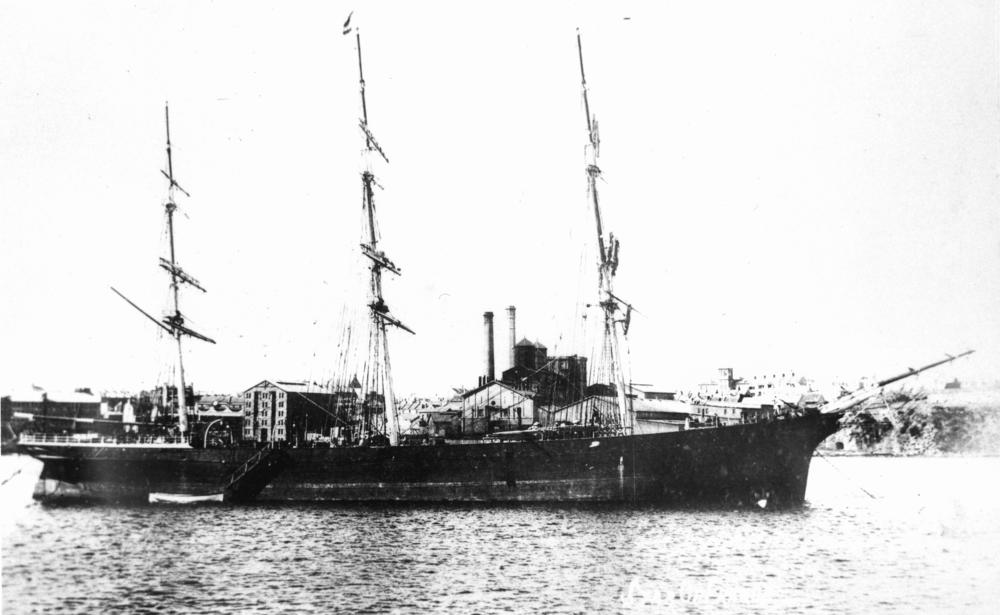 Star of France (ship) Built 1877, Belfast. 1569 Tons.